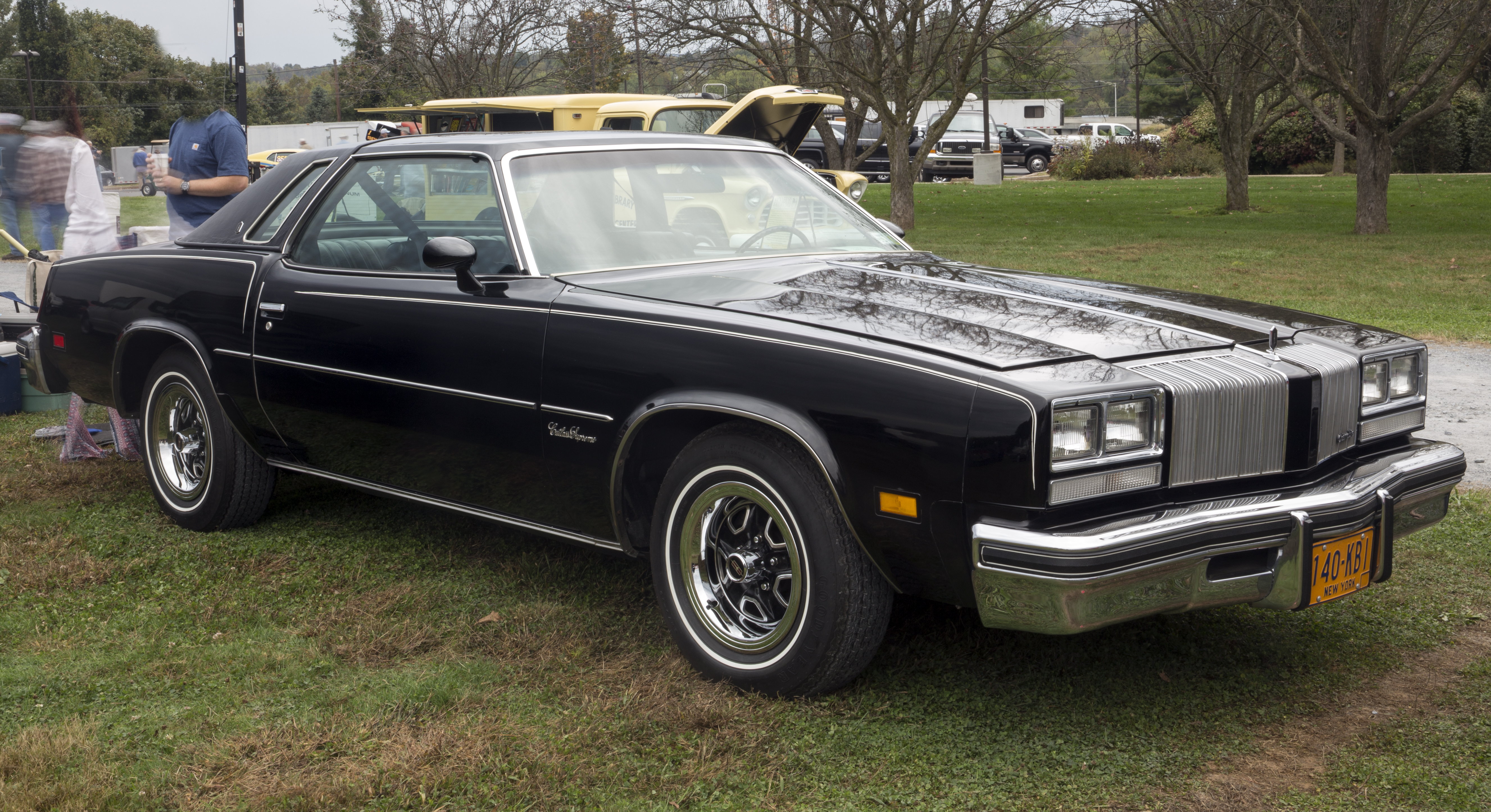 A 1977 Oldsmobile Cutlass Supreme Coupe in the show area at Hershey 2019. In 1976, the Cutlass Supreme was the #1 selling car in America, and the most popular bodystyle was the coupe.